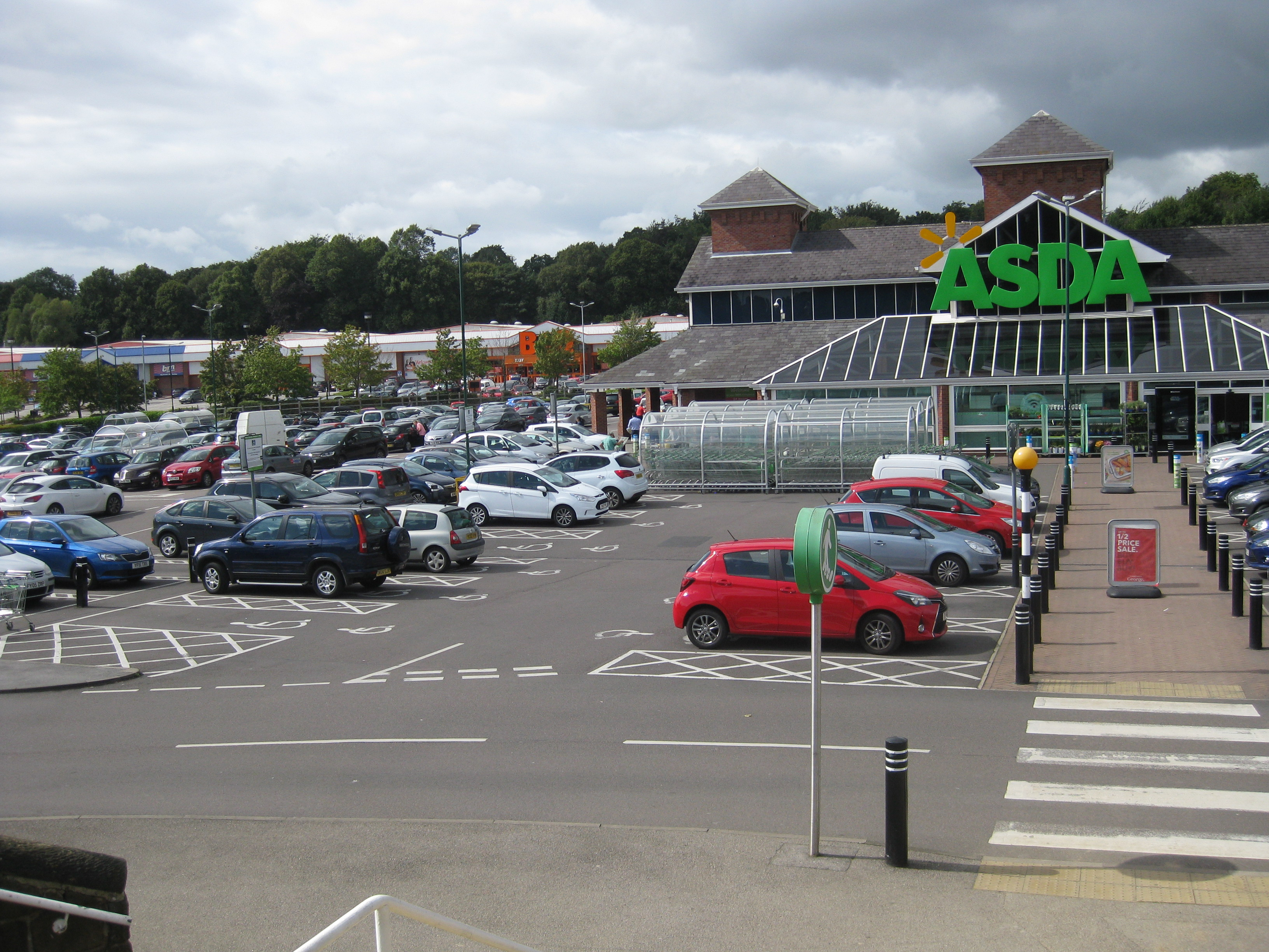 Killingbeck Retail Park, viewed from York Road. Prominent is the Asda superstore.